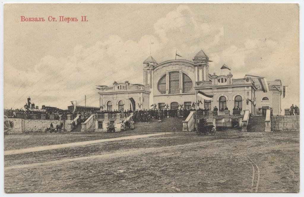 Perm II Train Station